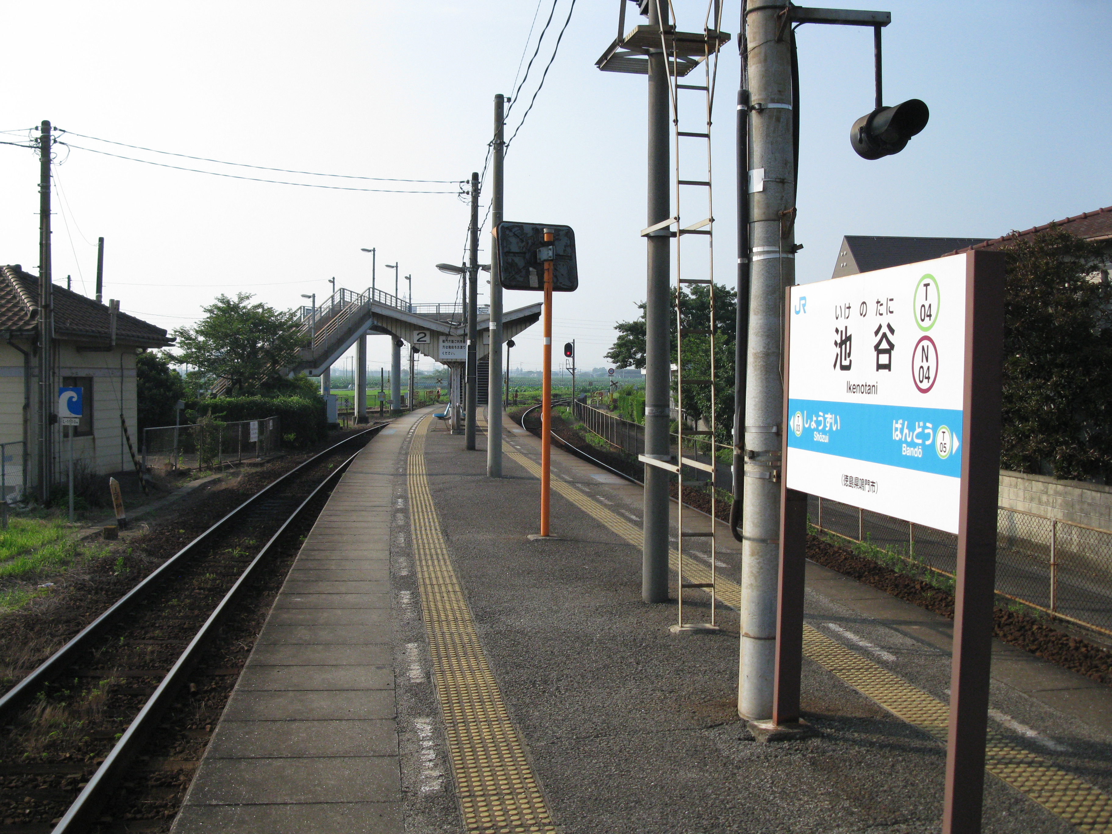 Ikenotani Station platform (Shikoku Railway(JR Shikoku) Kōtoku Line)